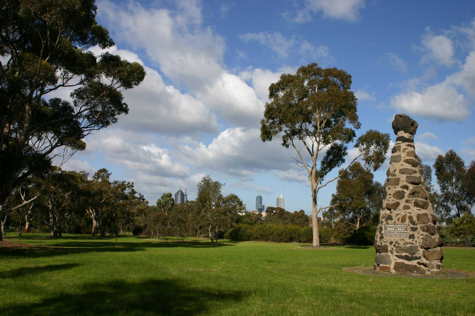 The Burke and Wills expedition monument in Royal Park with the city skyline in the background.